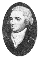 Detail of 'Victors of the Nile (with 15 cameo portraits of naval officers)', depicting Captain George Blagdon Westcott, who was killed at the Battle of the Nile.